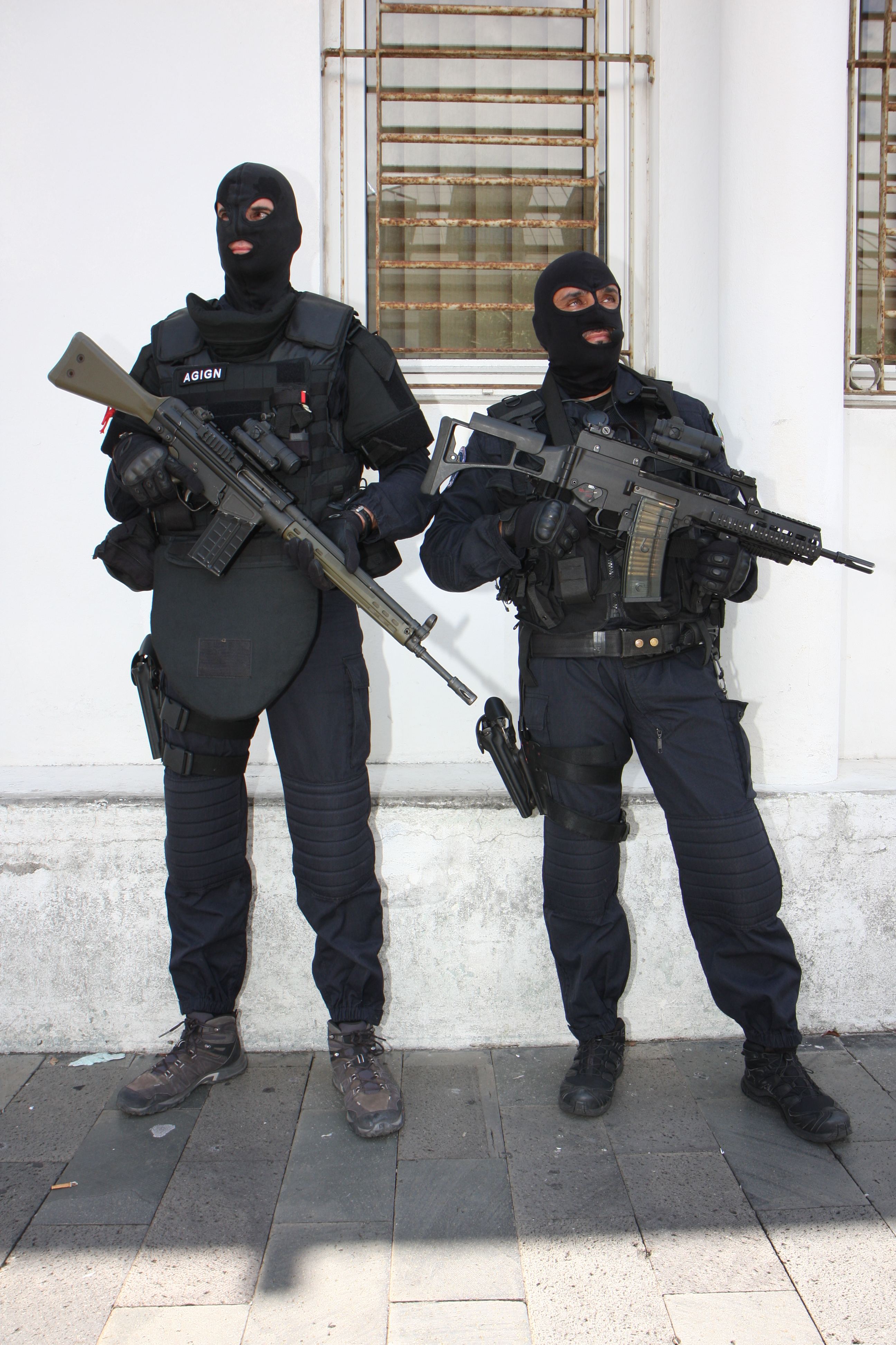 French Gendarmerie AGIGN officers with G3 and G36 assault rifles